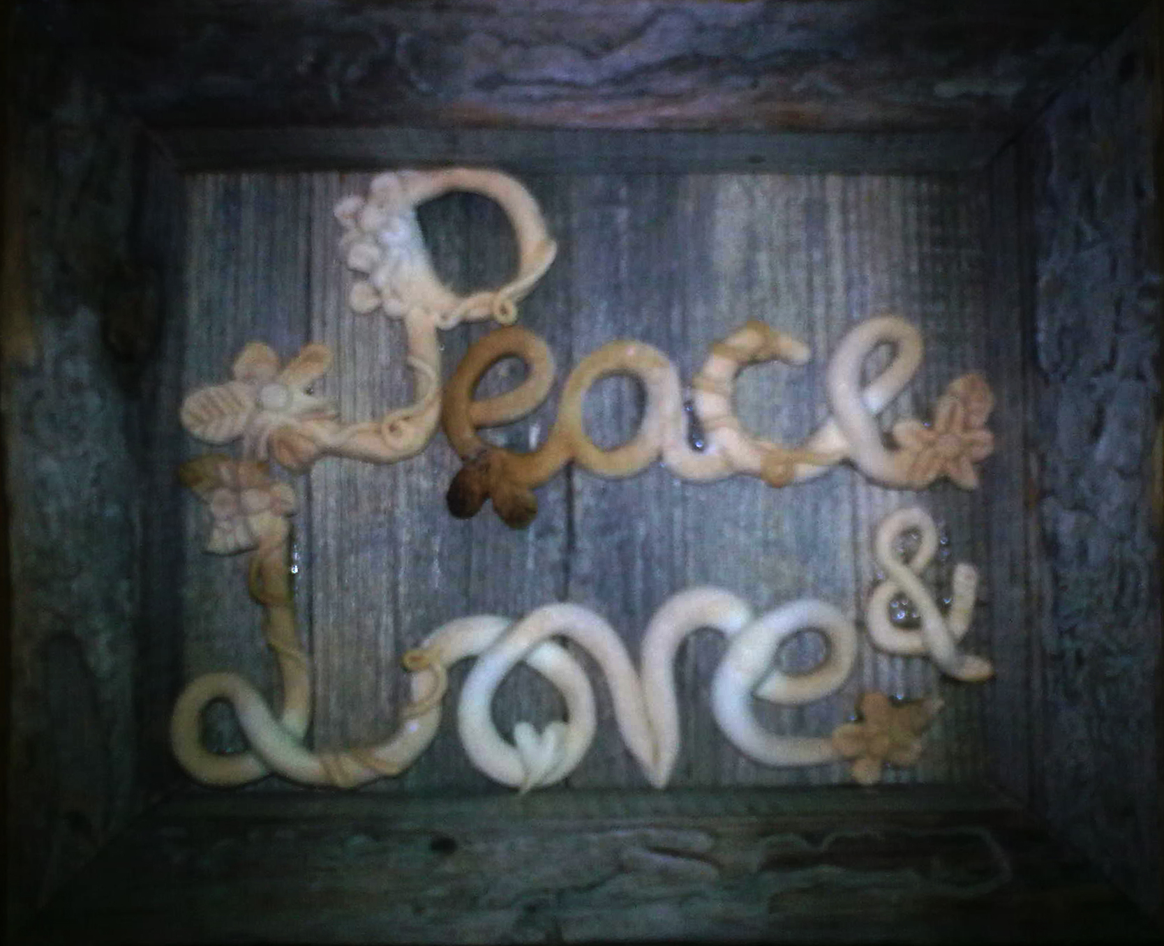 Taulu